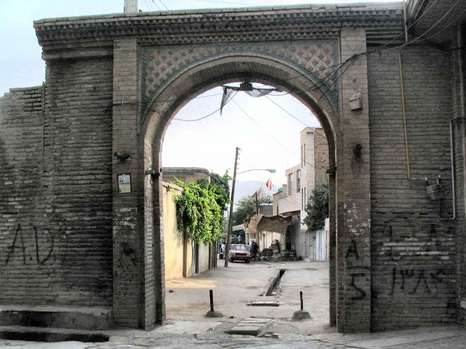 The old gate on Imamzadeh Ja'far shrine in Borujerd